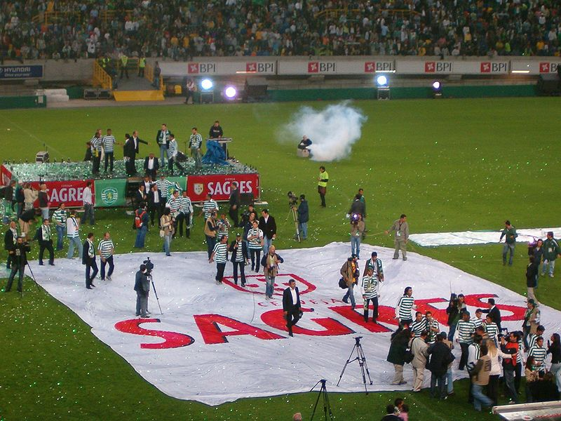 Estádio Alvalade XXI